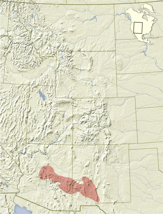 Distribution map of the gray-collared chipmunk